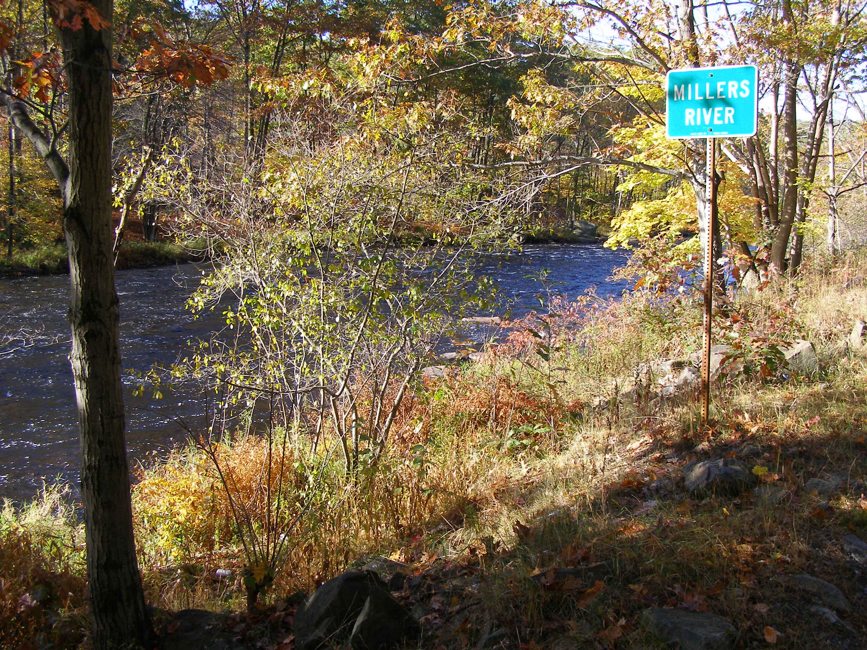 Millers River near Erving, Massachusetts (Mohawk Trail / Mass. Route 2)